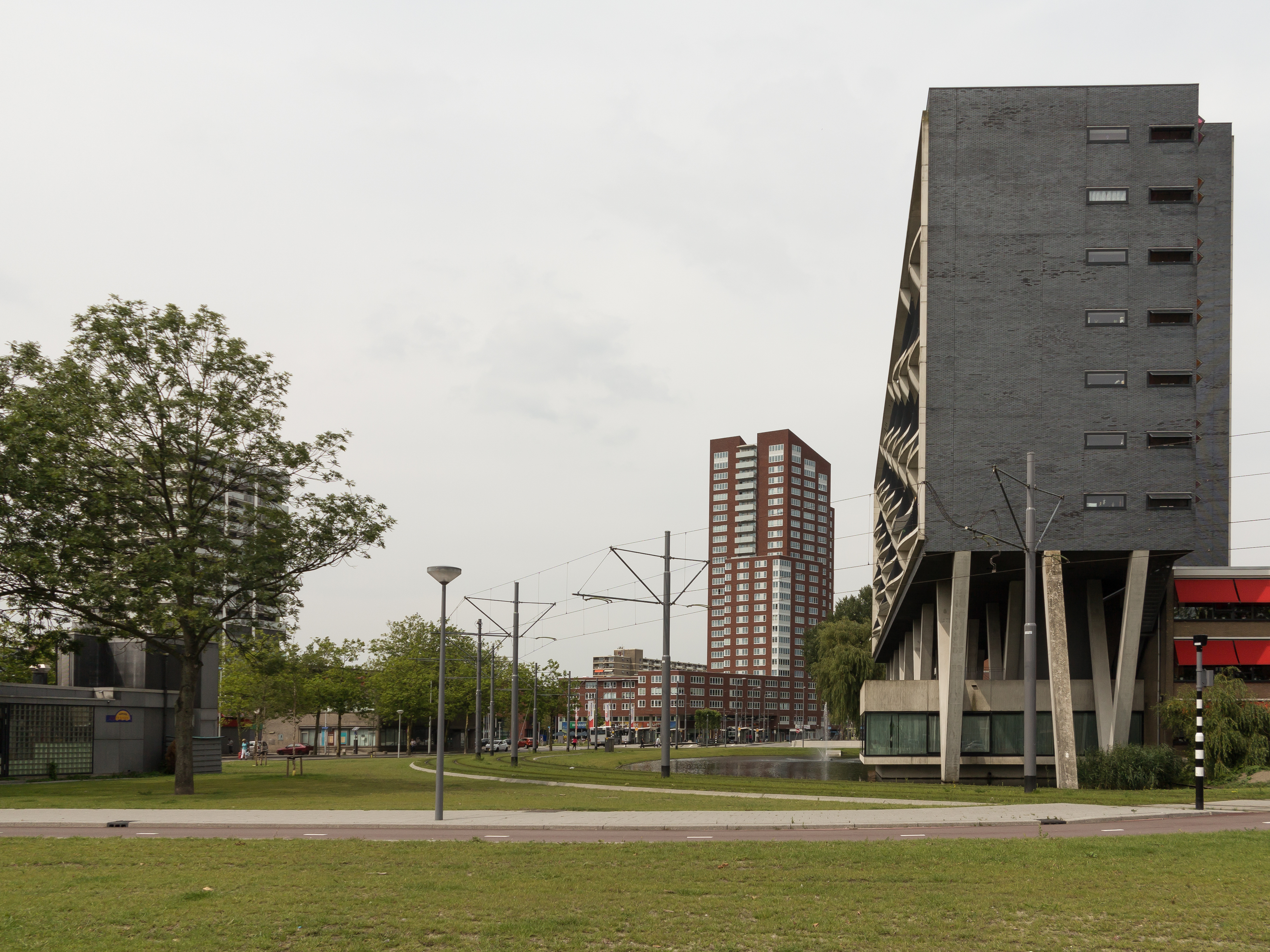 Rotterdam-IJsselmonde, view to a street: Groenix van Zoelenlaan-Heerenwaard